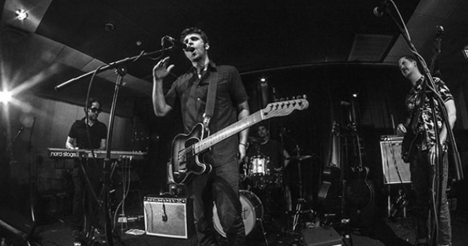 Rock group performing on stage, spotlit (Radiator King at Once Ballroom in Somerville, Massachusetts, 5 May 2017)